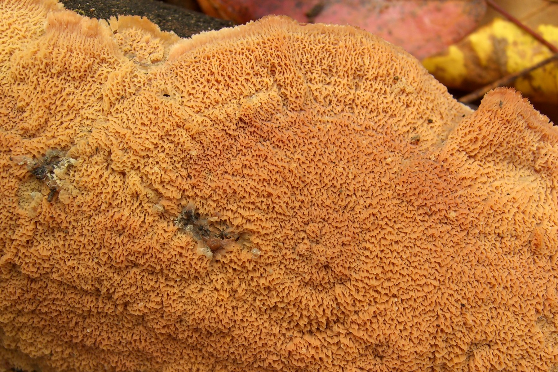 Merulius tremellosus Schrader Location: CabinCove, Smoky Mountains, Haywood Co., North Carolina, USA Observation Notes: parchment fungus under rotten log in moist hardwood forestCAP: almost completely resupinate but a few edges stick out ~5-10mm, pinkish brown, watery, shaggy hairyFLESH: cap-colored, soft, tough enough that I could peel it off the log intact but it feels gelatinousGILL: irreg shallow vein-like reticulate wrinkles, cap-coloredSPORE: print whiteThe key in Demystified doesn’t inspire confidence in the species ID, but it’s got to be close. For more information about this, see the observation page at Mushroom Observer.